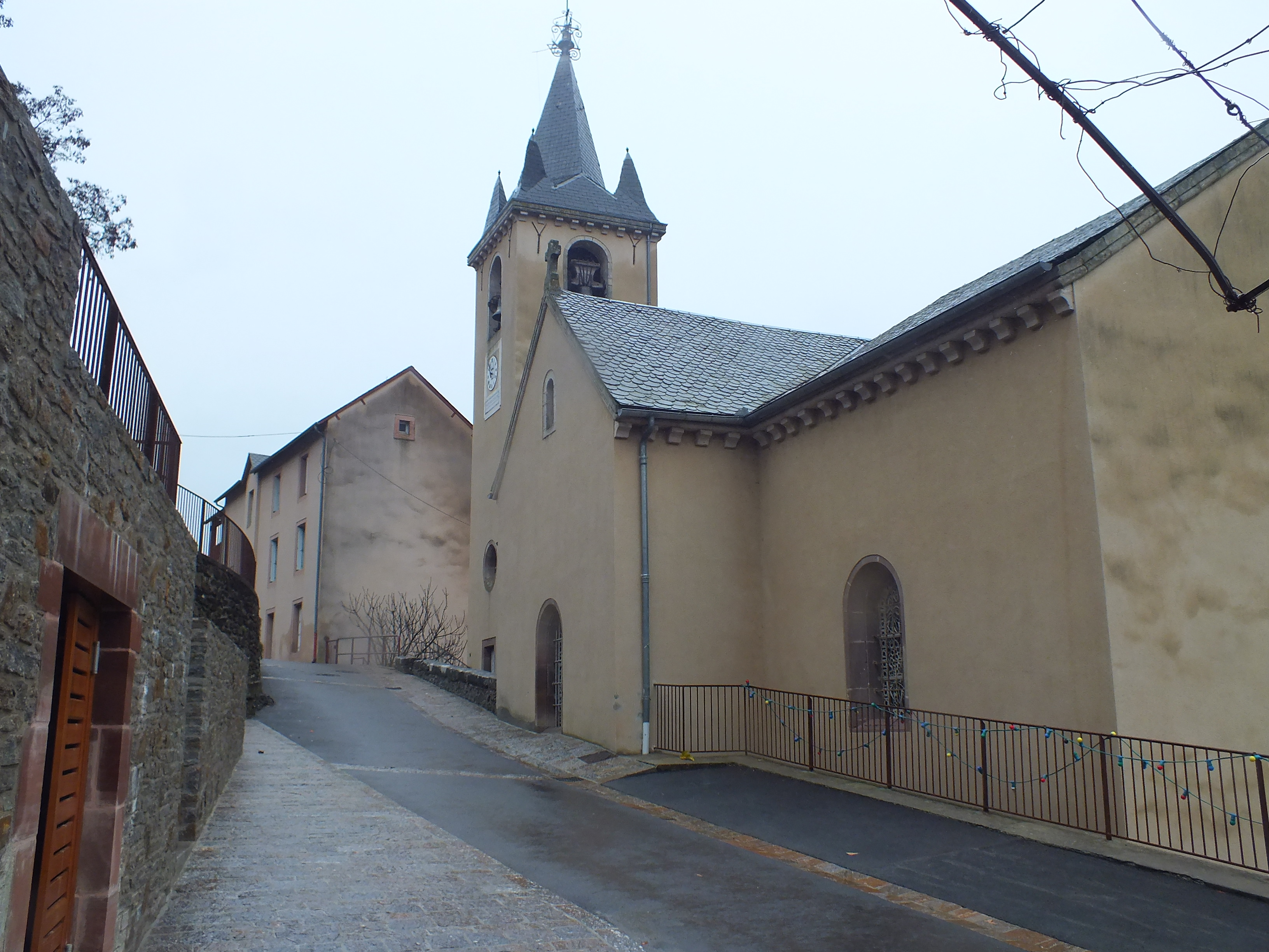 Le Truel, Aveyron, France in December, and raining! Church